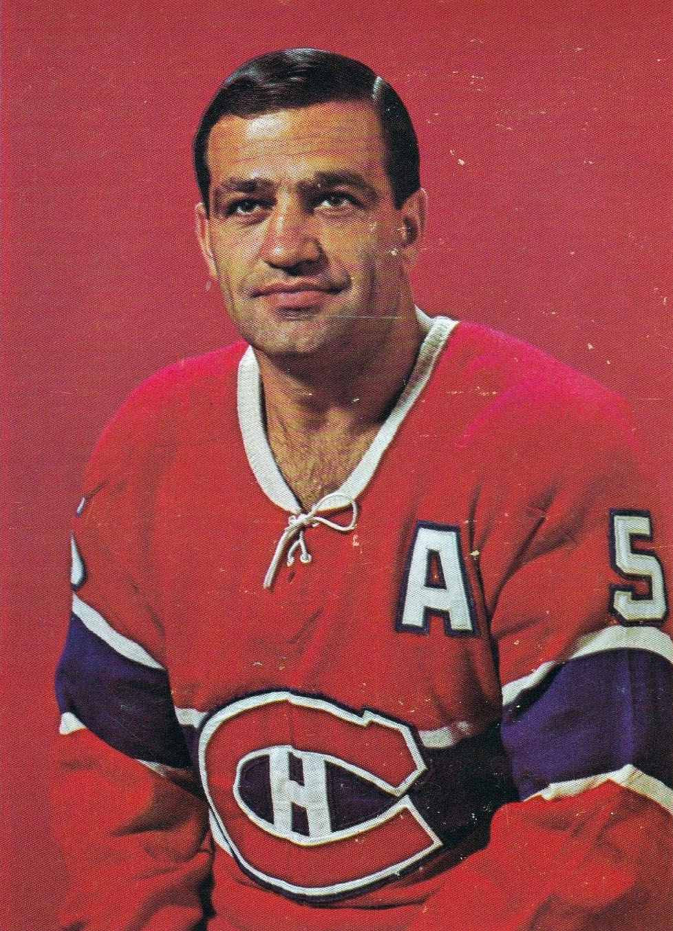 Trading card photo of Bernard Geoffrion of the Montreal Canadiens. These cards were printed on the backs of Chex cereal boxes in the US and Canada from 1963 to 1965. Those collecting the cards cut them from the back of the boxes.